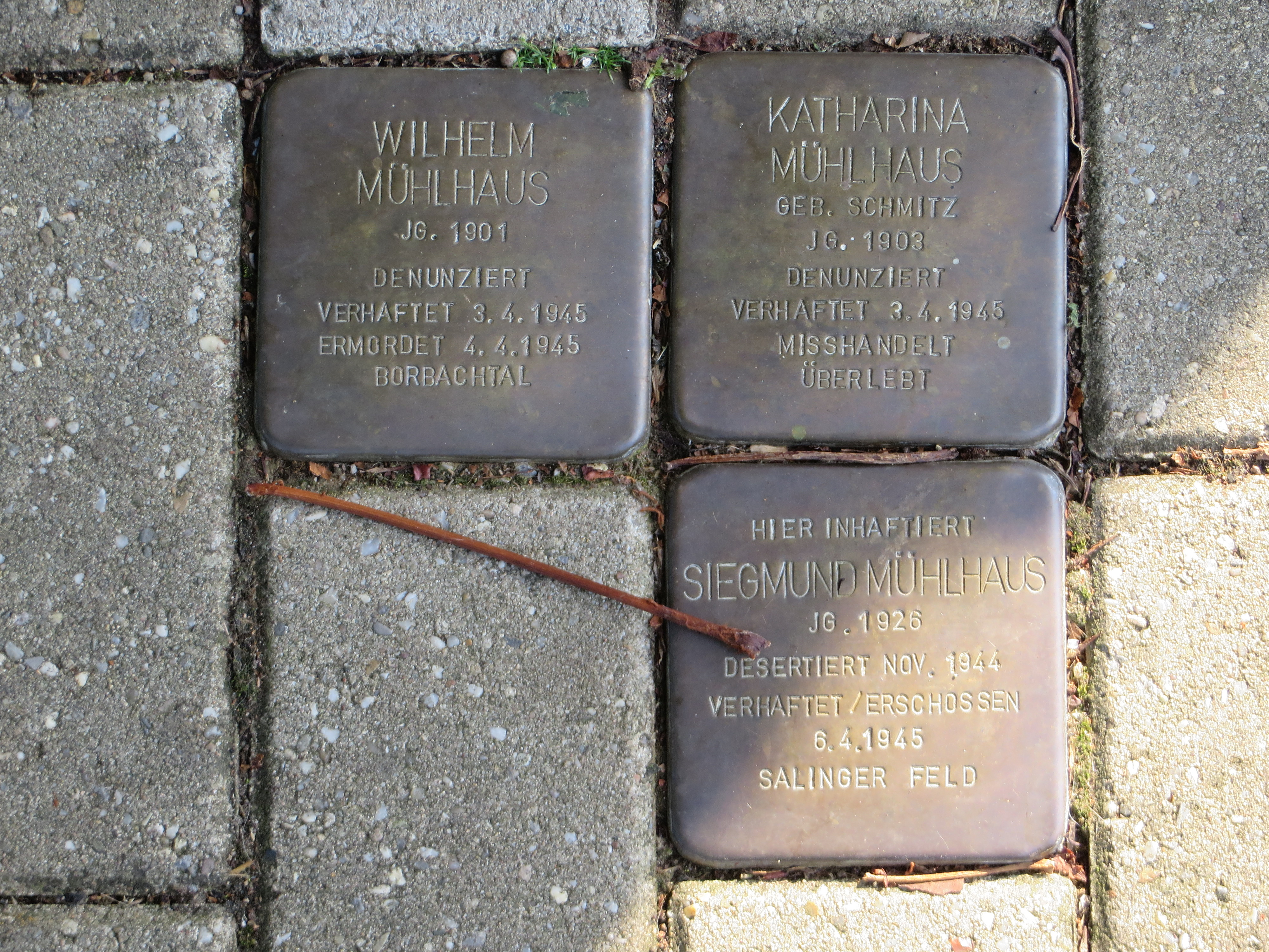 Stolpersteine at road junction Siegfriedstraße/Steinbachstraße in Witten, Germany